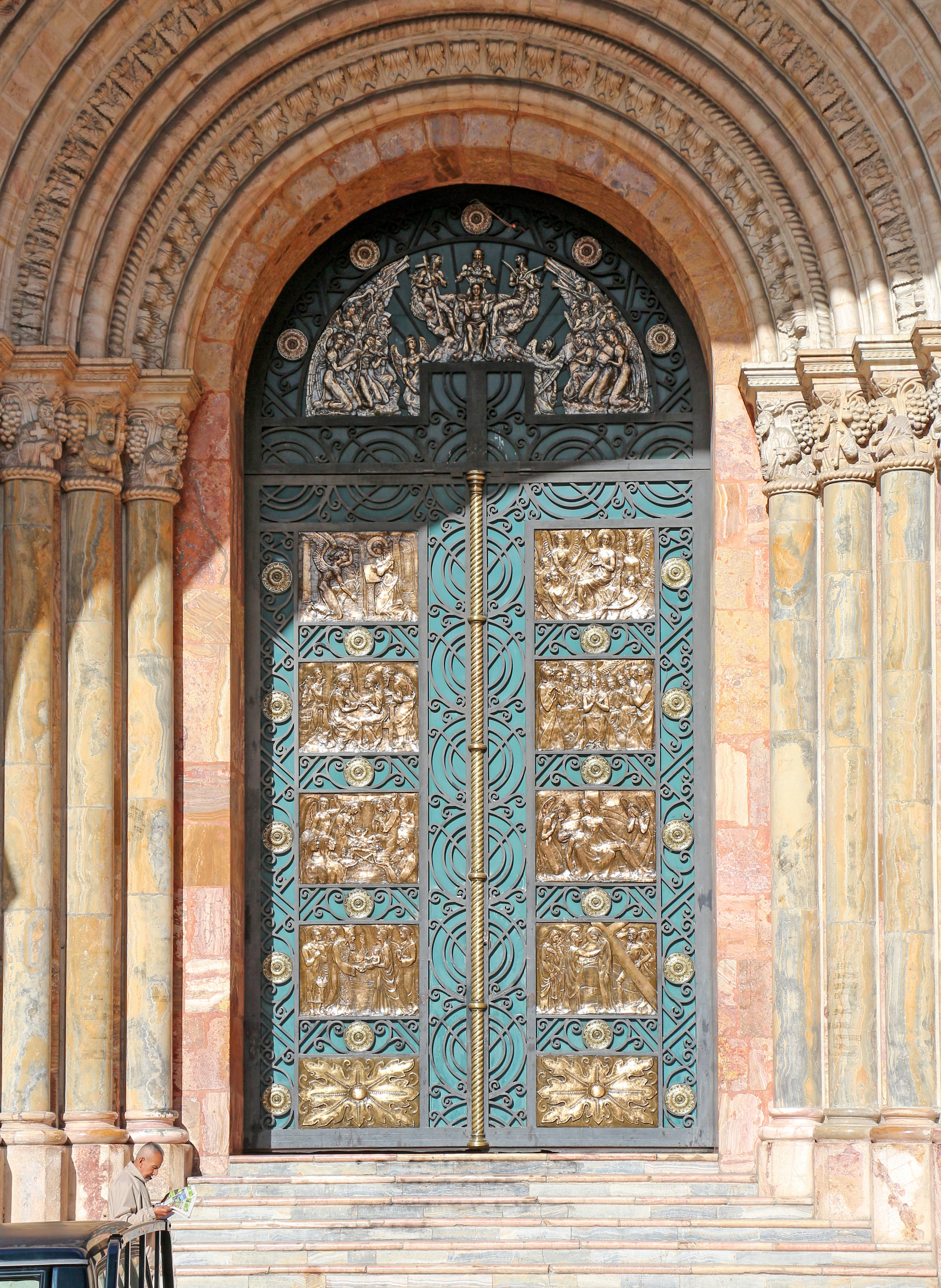 Main door of the Catedral de la Inmaculada Concepción, Cuenca, Ecuador